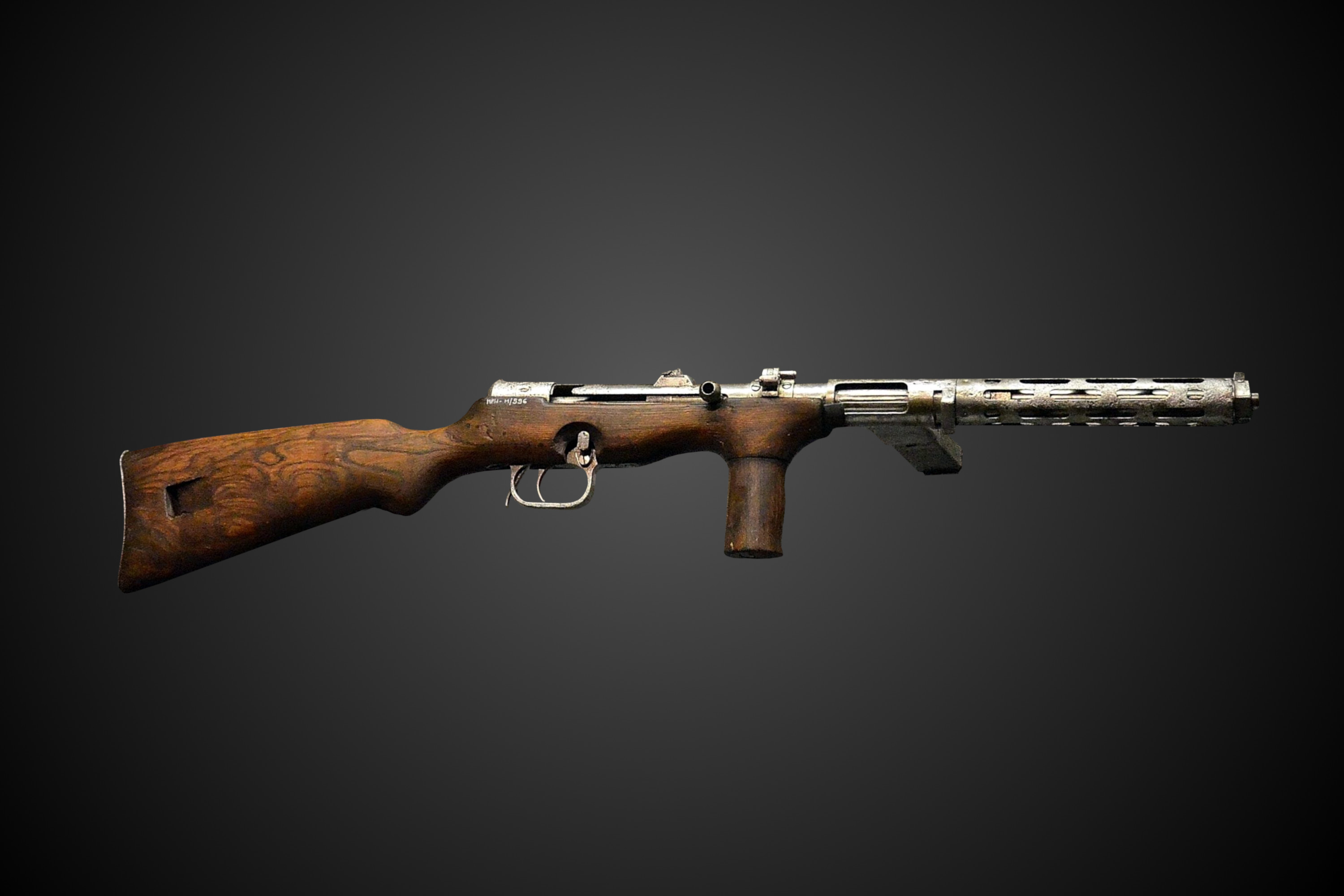 ERMA Maschine Pistole (EMP) cal. 9 mm in the Warsaw Uprising Museum.